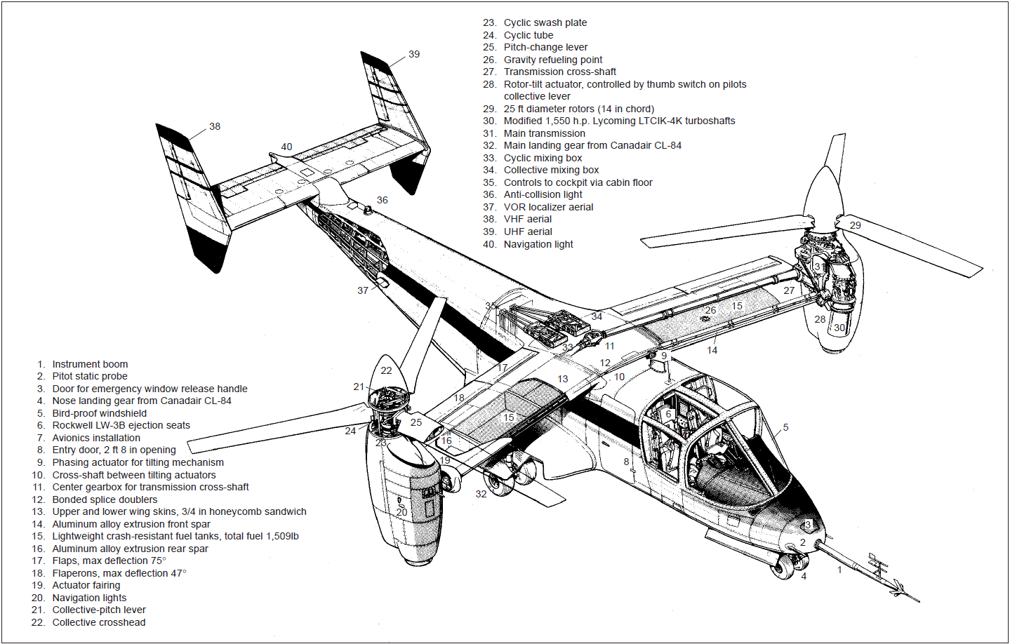 Cutaway diagram of Bell XV-15 tiltrotor, with notes